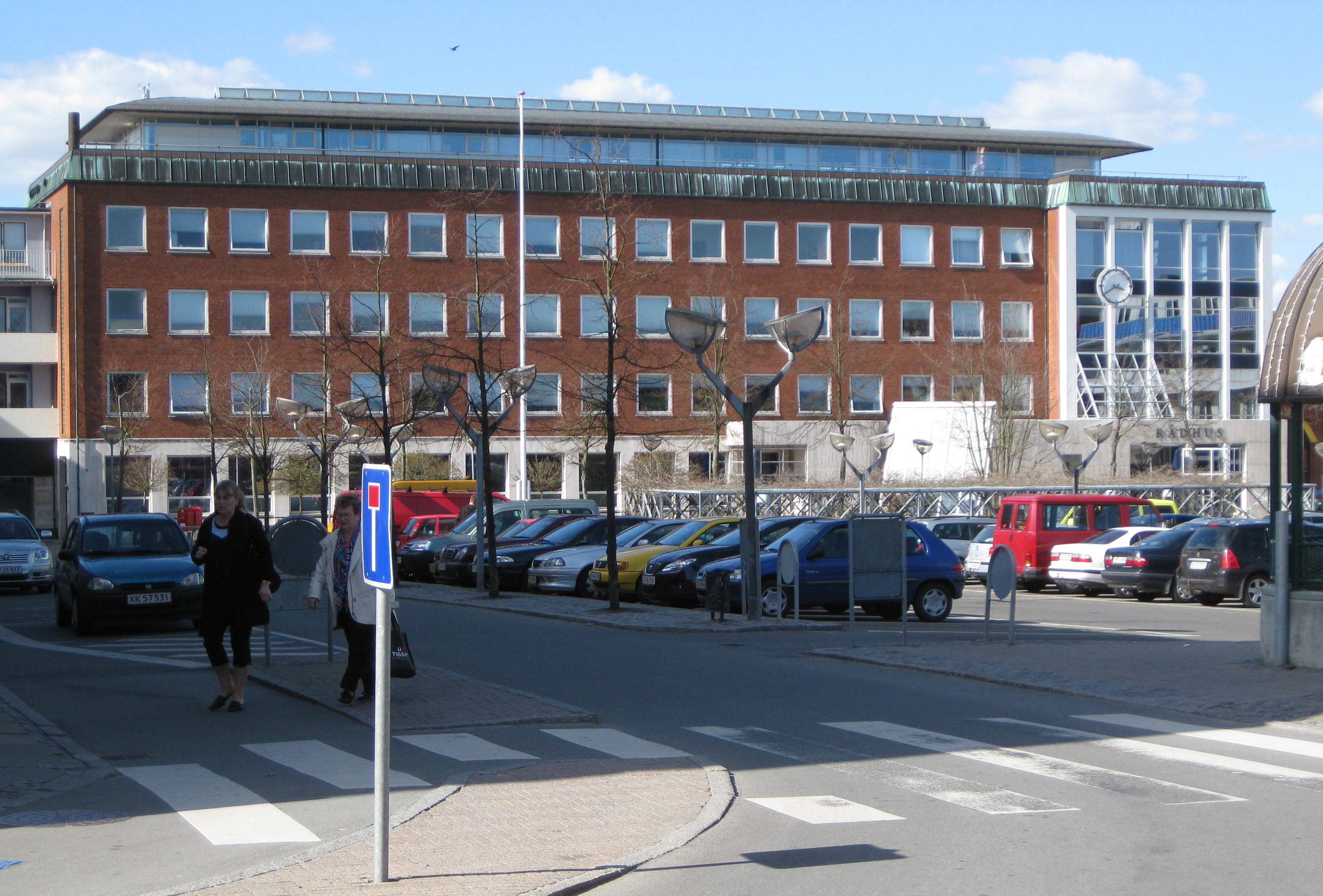 The town hall "Slagelse Rådhus" in Slagelse. The town is located in West Zealand, Denmark.